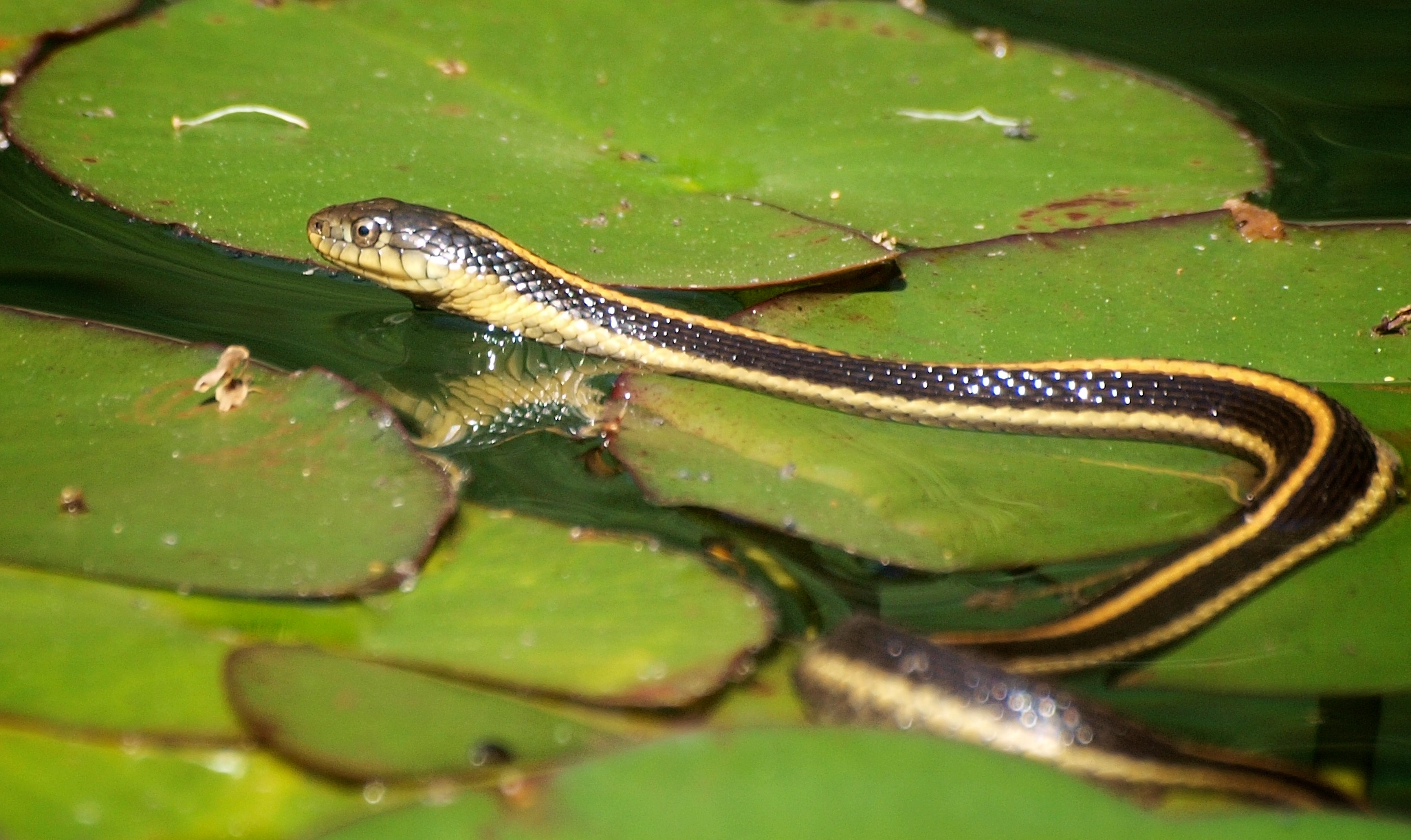 A serendipitous meeting at UC Berkeley Botanical Garden (Thamnophis atratus)